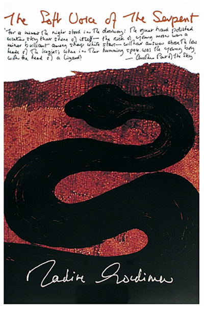 "The Soft Voice of the Serpent" by Nadine Gordimer (Book cover). Publisher: S. Fischer Verlag.